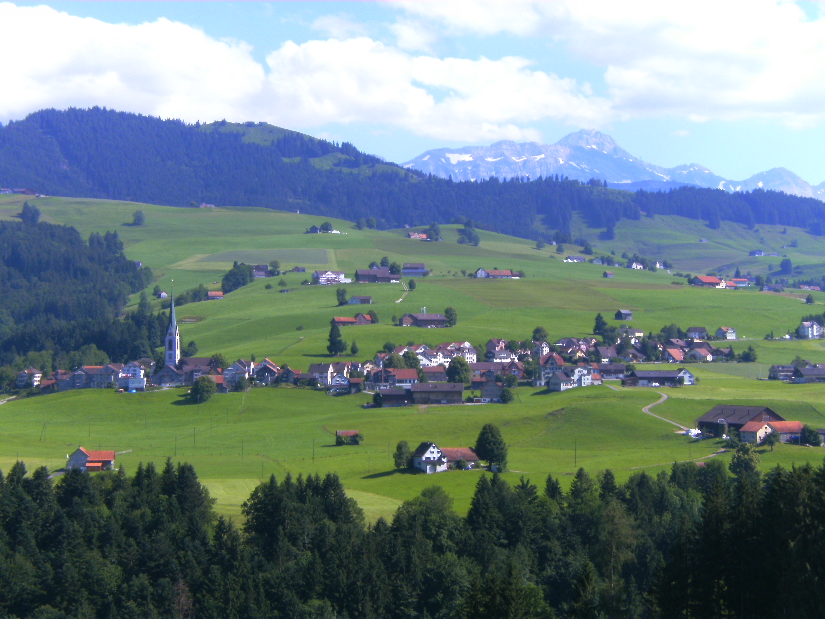 Hundwil